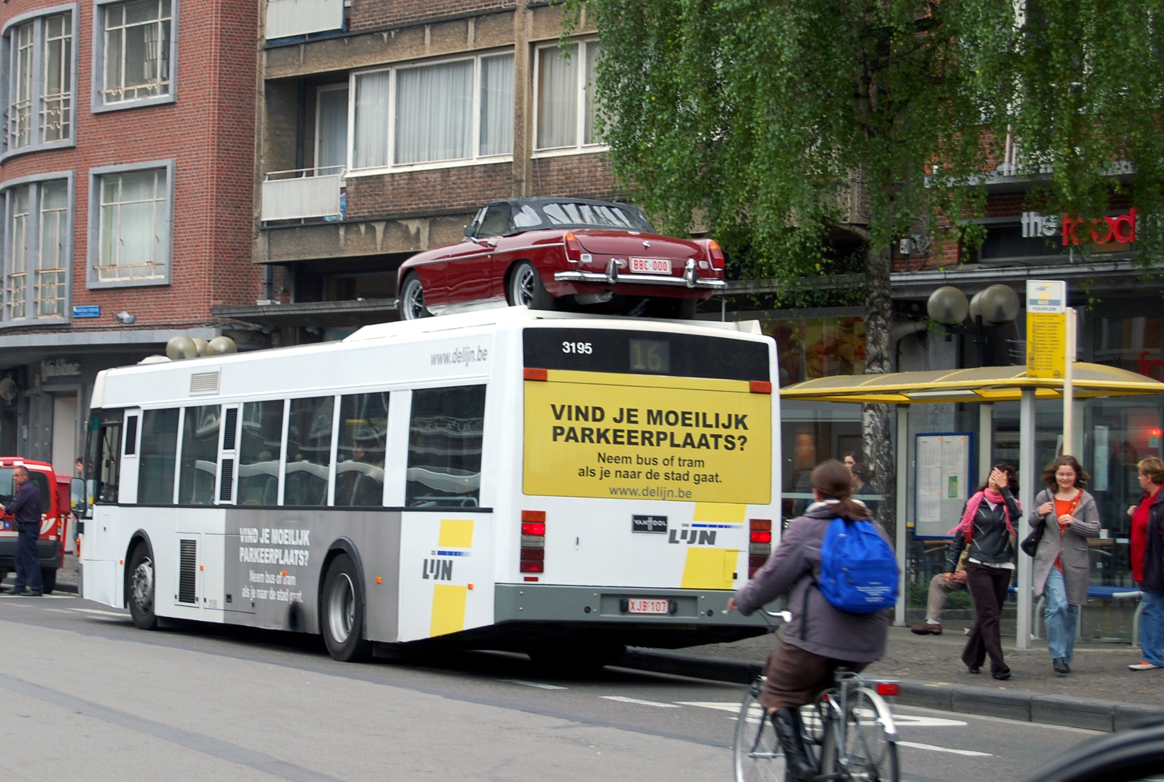 Bus company De Lijn in Belgium promotes public transport with a car on top of a bus.